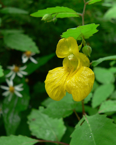 I am the photographer of this image and I release it for use on Wikipedia. (re-uploaded to correct filename spelling) Image is actually a yellow form of Impatiens capensis.